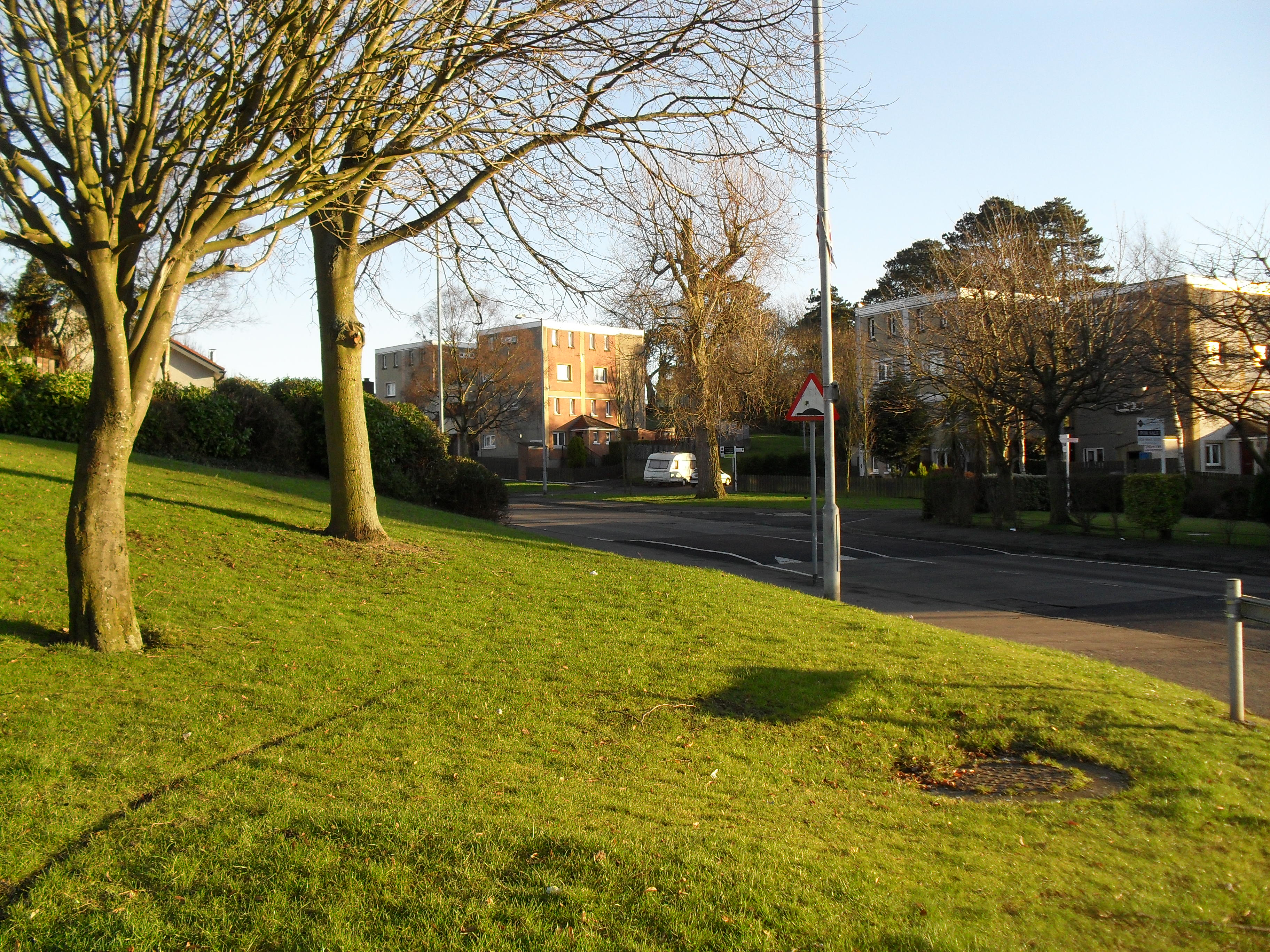 Drumadoon Drive, Ballybeen The main entrance from Robbs Road into the Ballybeen Estate.